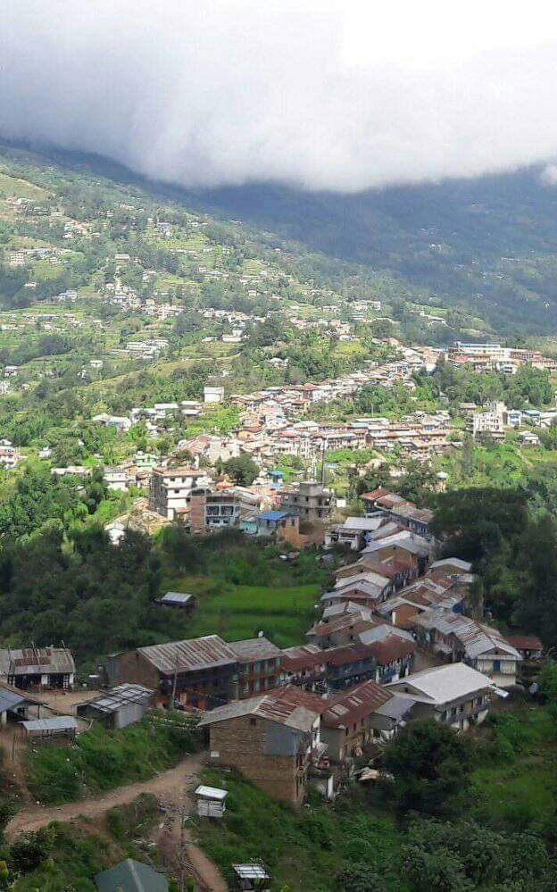 A view of Diktel Bazar, Khotang District